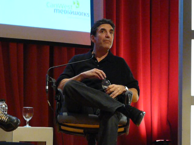 Chuck Lorre, American TV producer